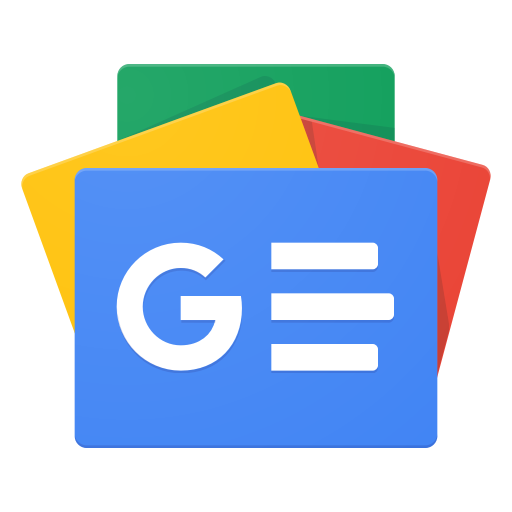 Google News icon